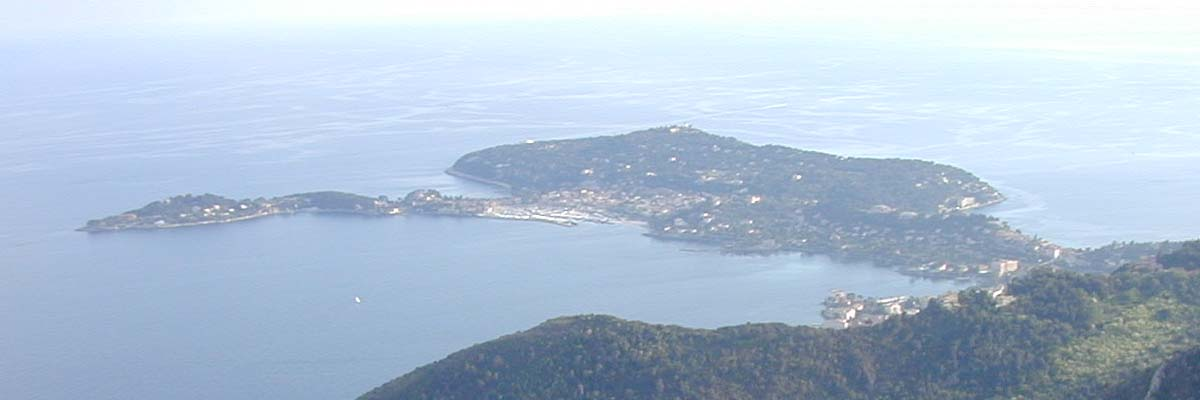 Distant view of Cap Ferrat from Mt. Bastide. Taken 2004/04 by W M Connolley (original 1600x1200).